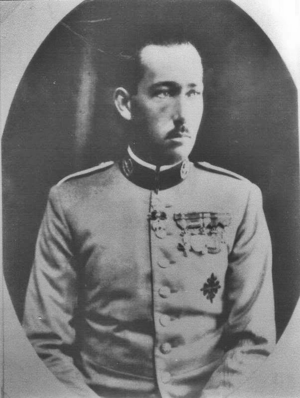 Prince Gabriel of Bourbon-Two Sicilies (1897 - 1975)